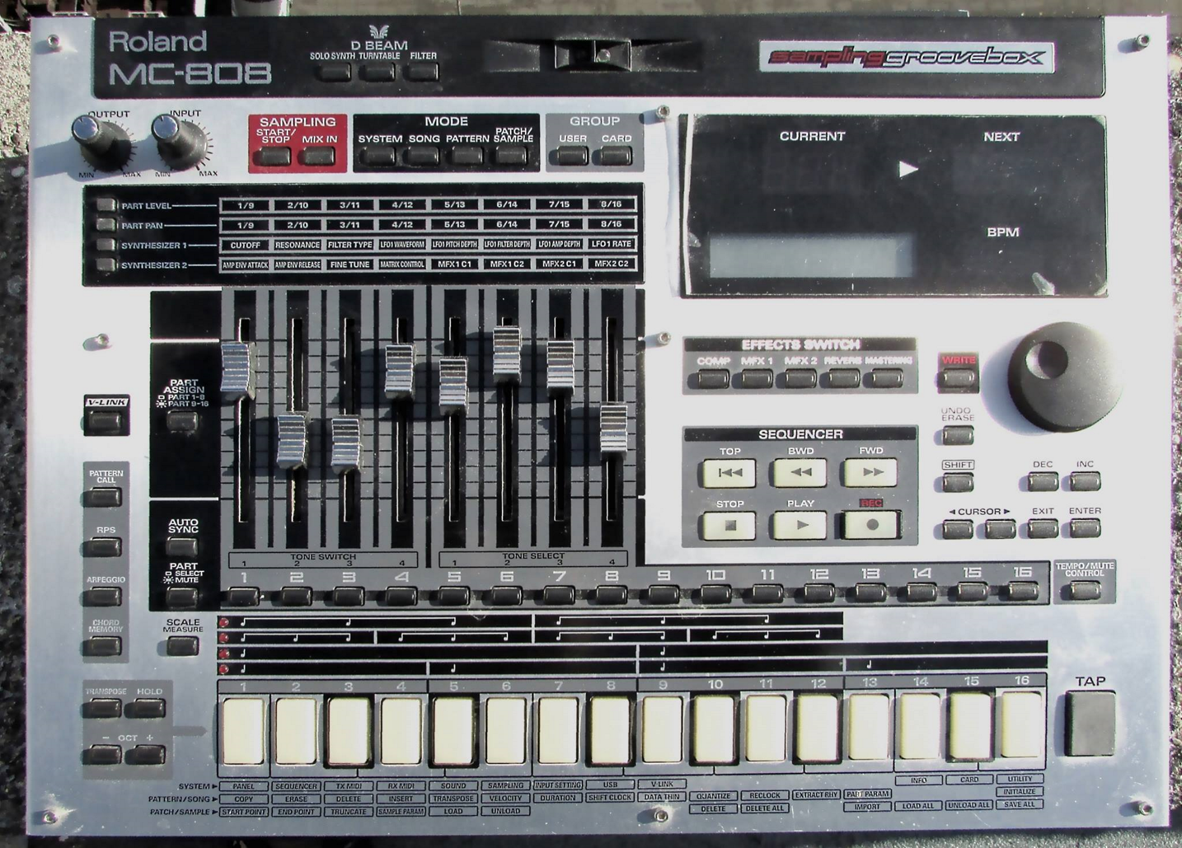 Roland MC-808 Groovebox Sequencer / synth / sampler Top view II.